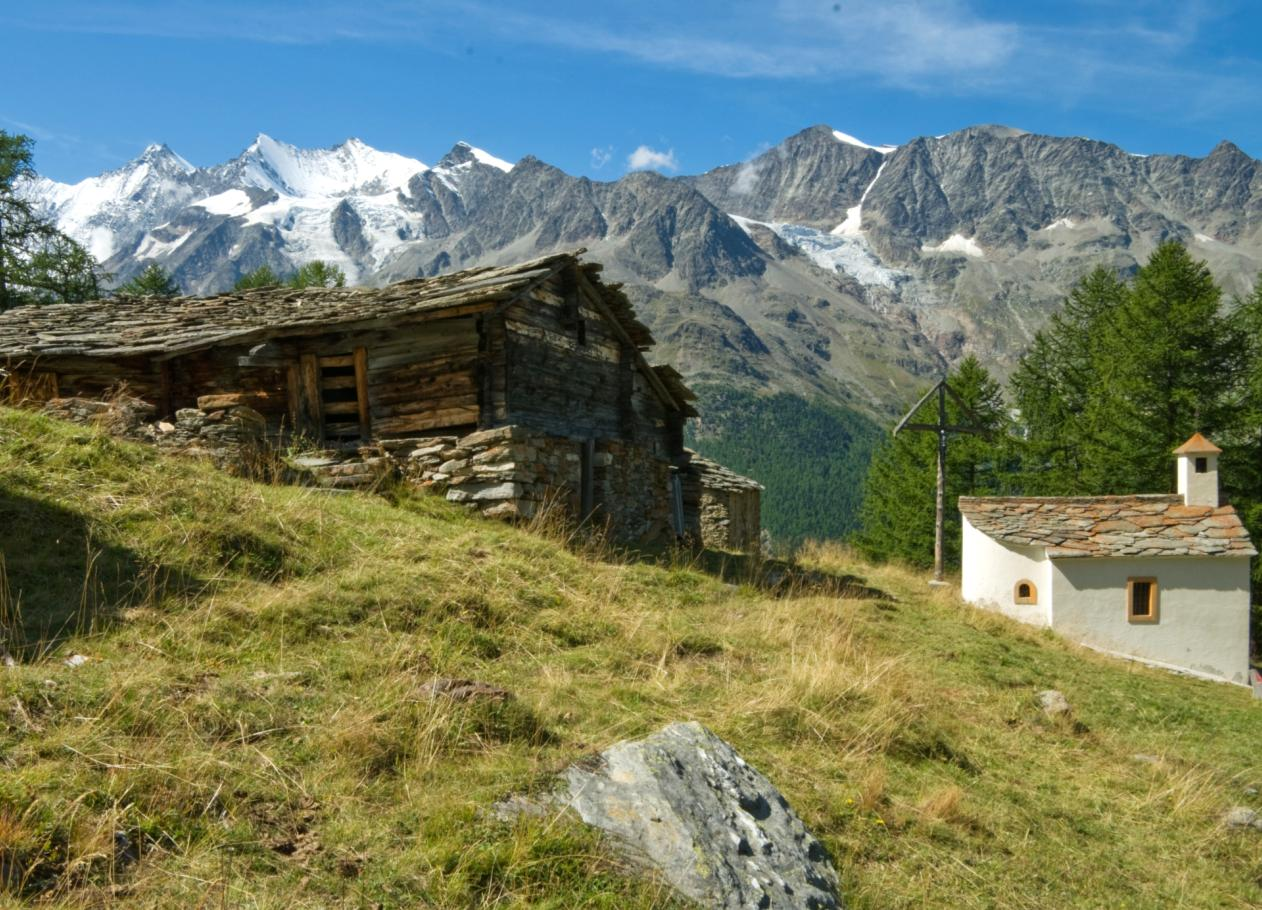 View of Mischabel range from Triftalp, near Saas Fee